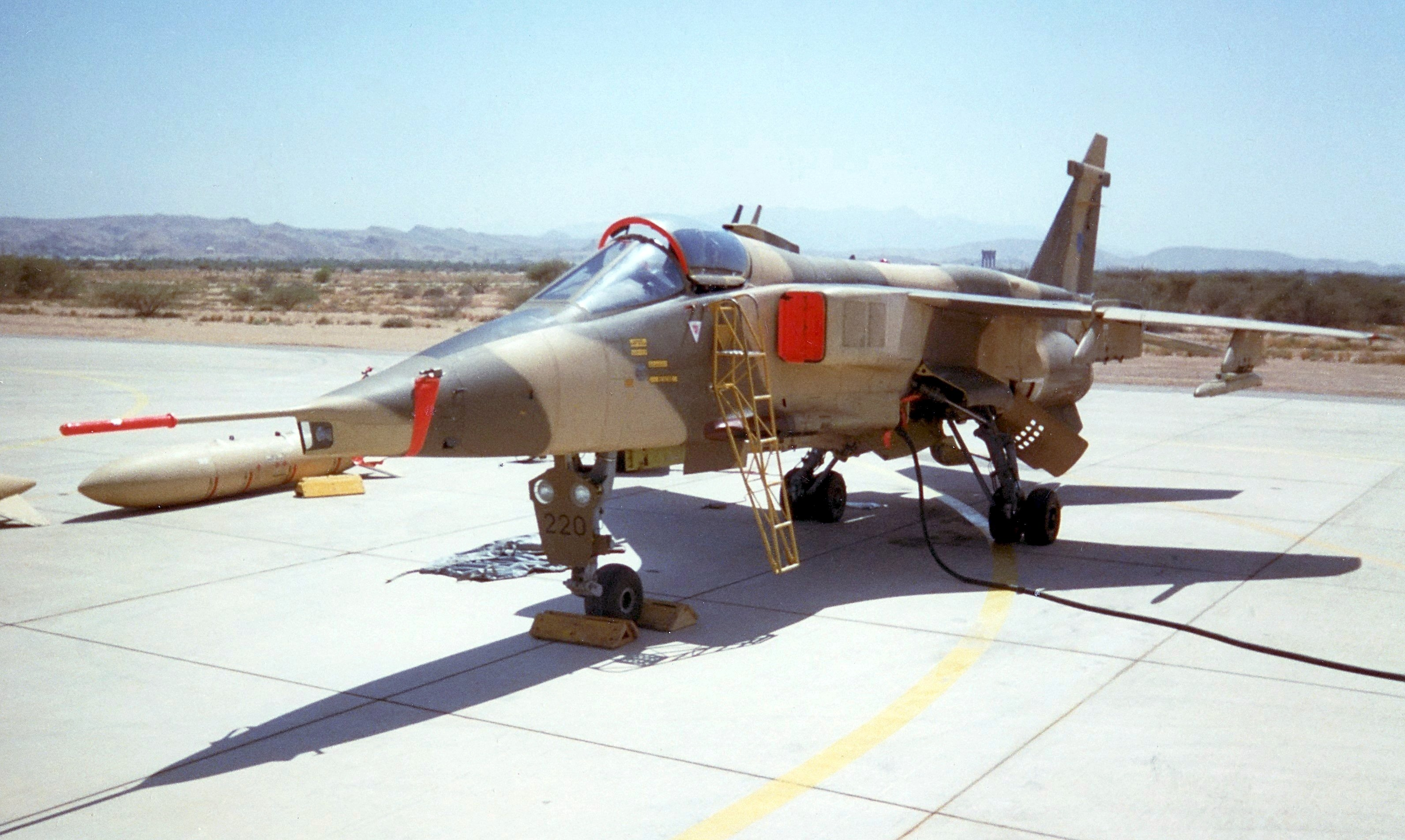 Omani Jag on detachment at RAFO Seeb. Muscat